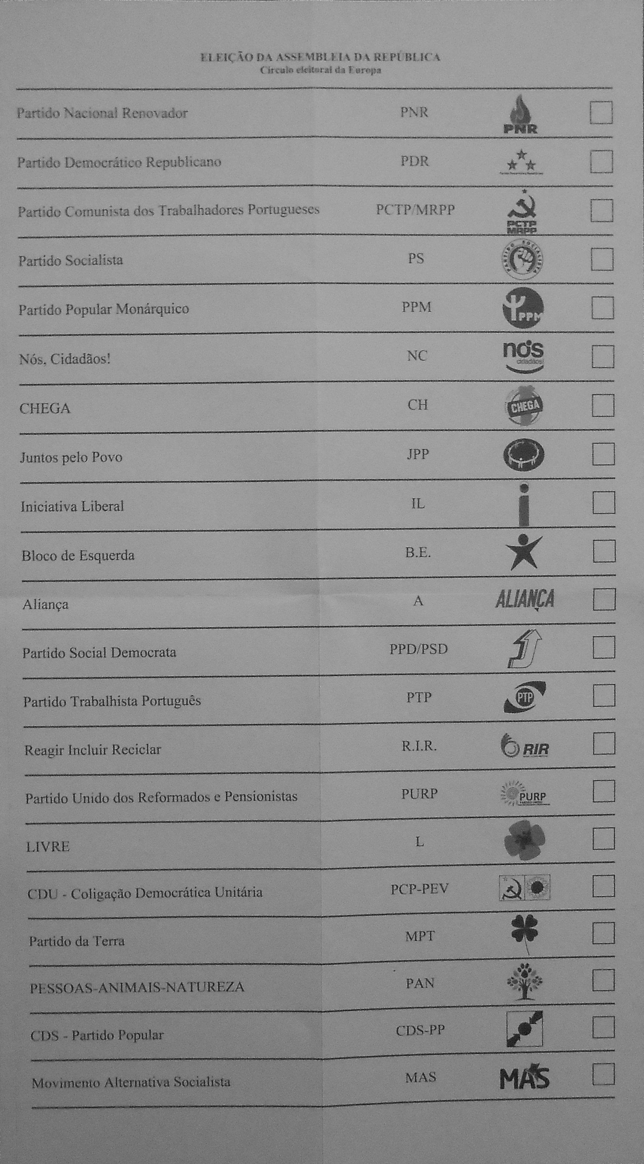 Ballot paper in the 2019 elections for the parliament in Portugal on october 6th.